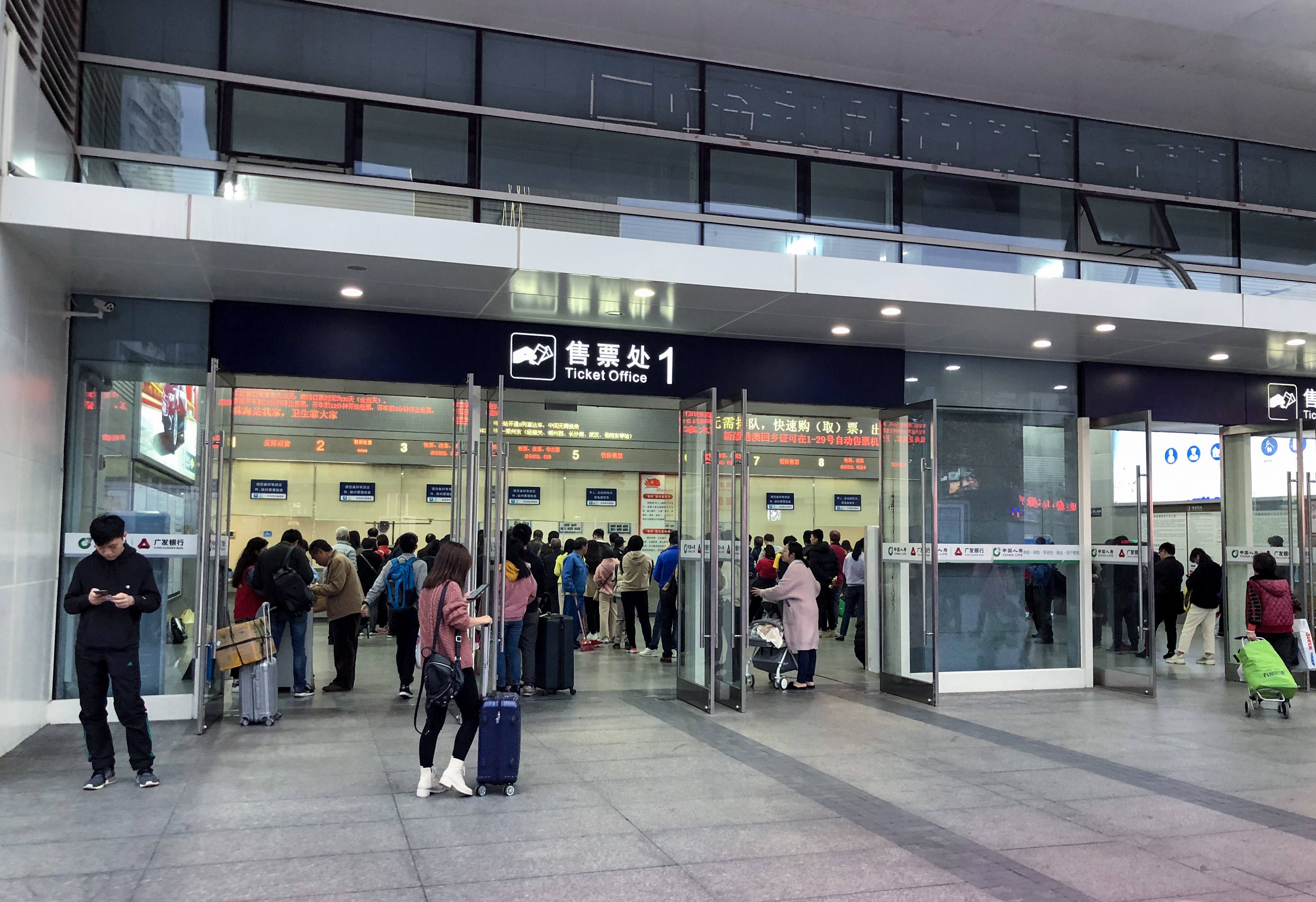 For other travel documents.